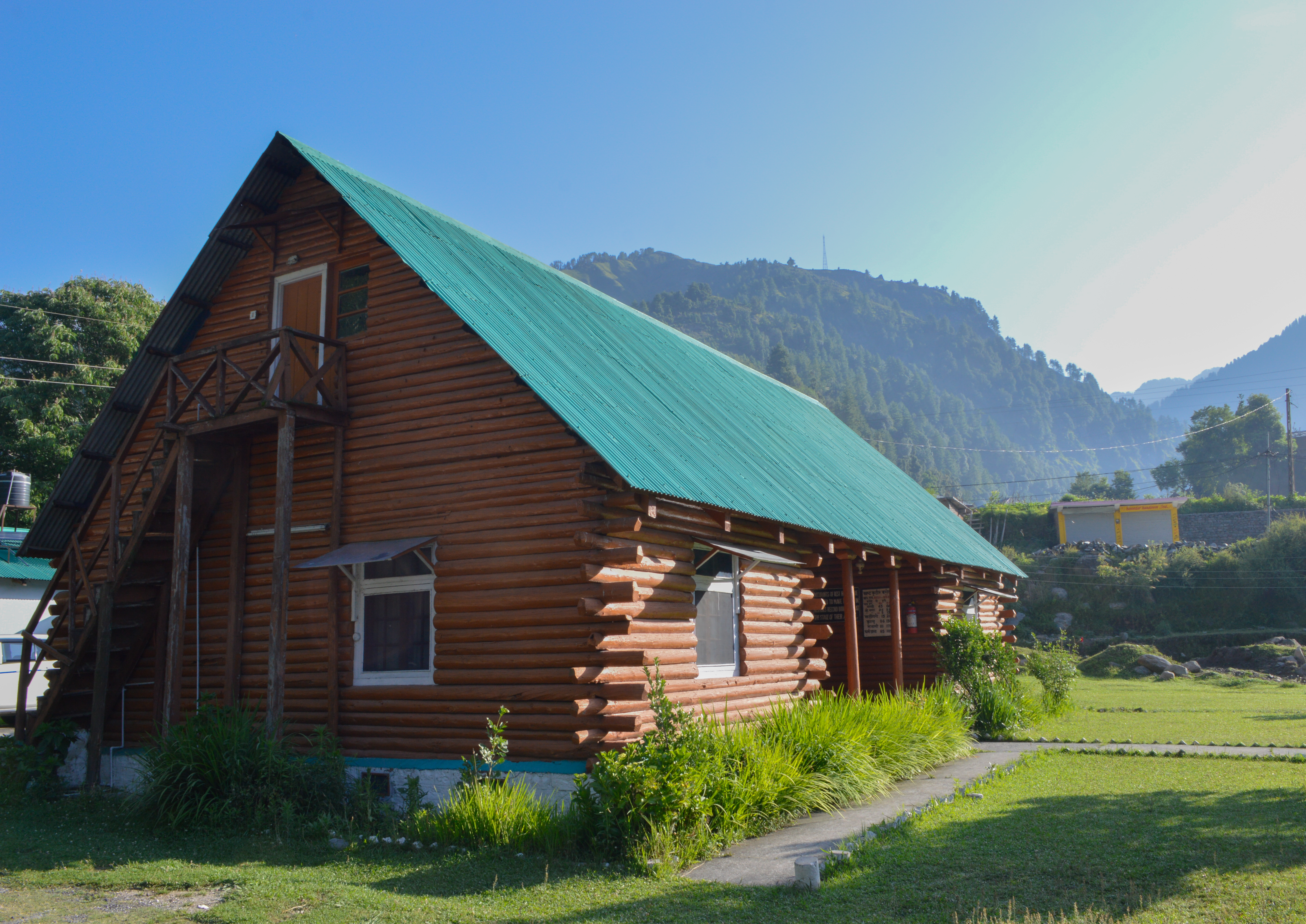 PWD Resthouse, Barot, Mandi District, Himachal